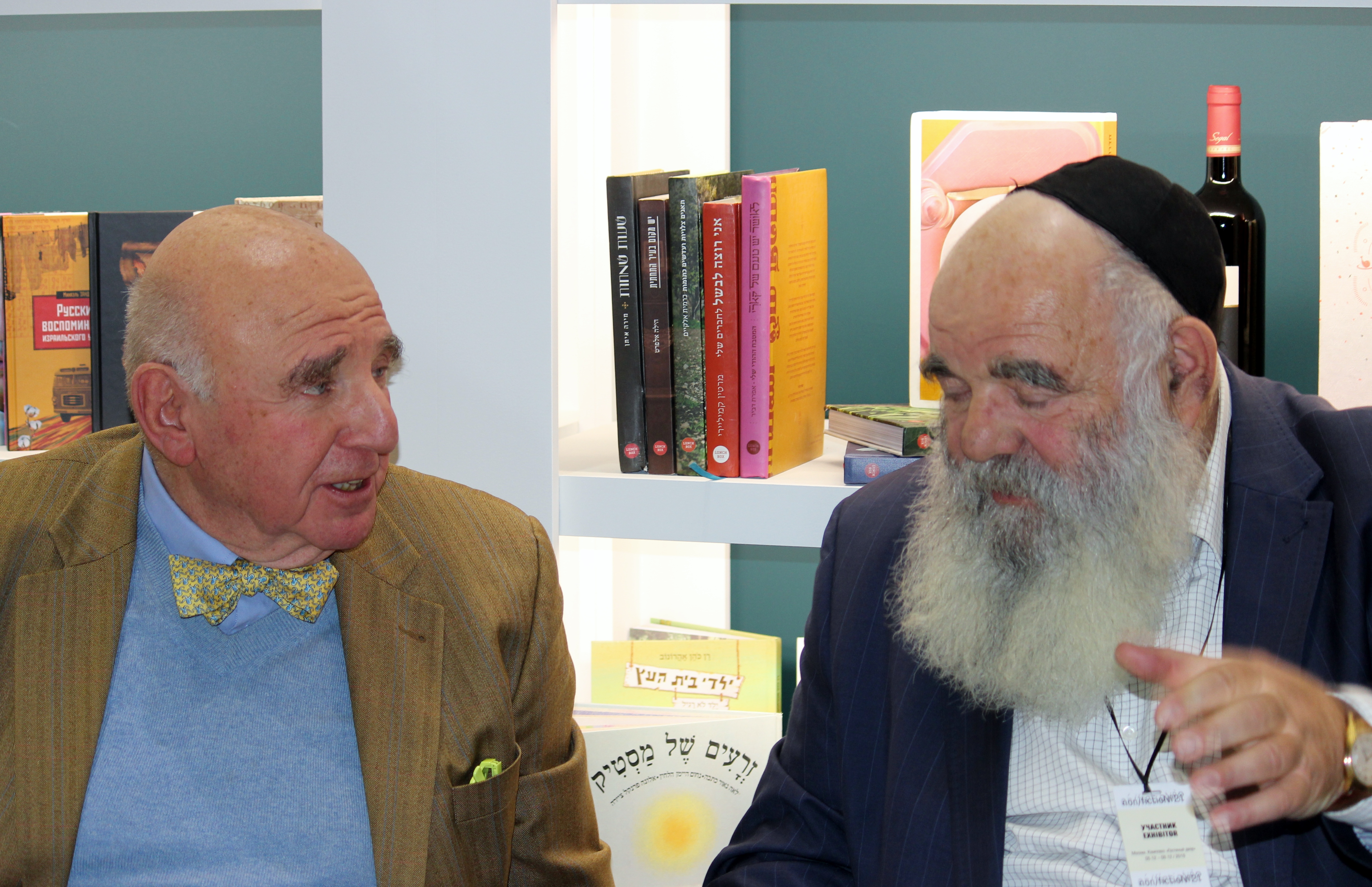 Writer Leonid Girshovich and editor Mikhail Grinberg at the 21 Moscow International Fair Non/fiction 2019